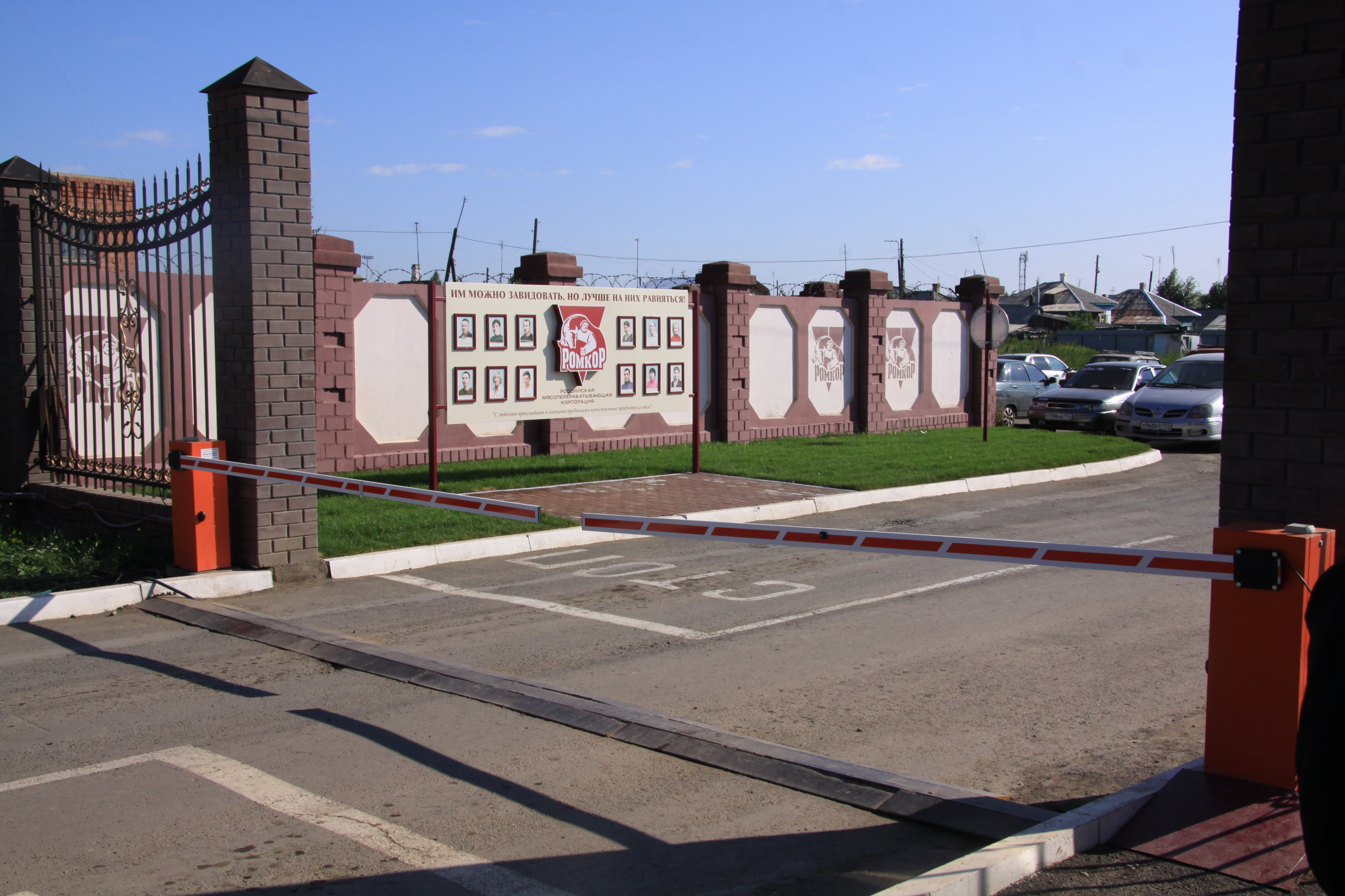 Мясоперерабатывающая корпорация "Ромкор"